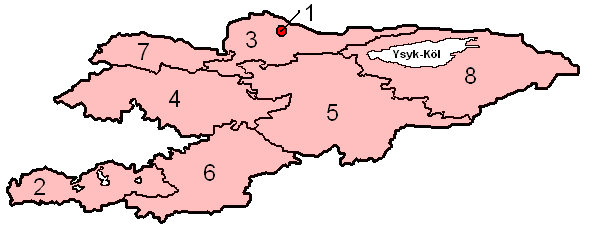 Kyrgyzstan provinces